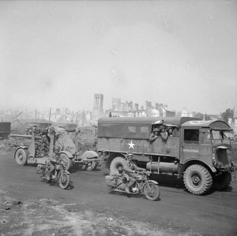 IWM caption : 3.7-inch gun being towed by an AEC matador lorry through the ruins of Caen.